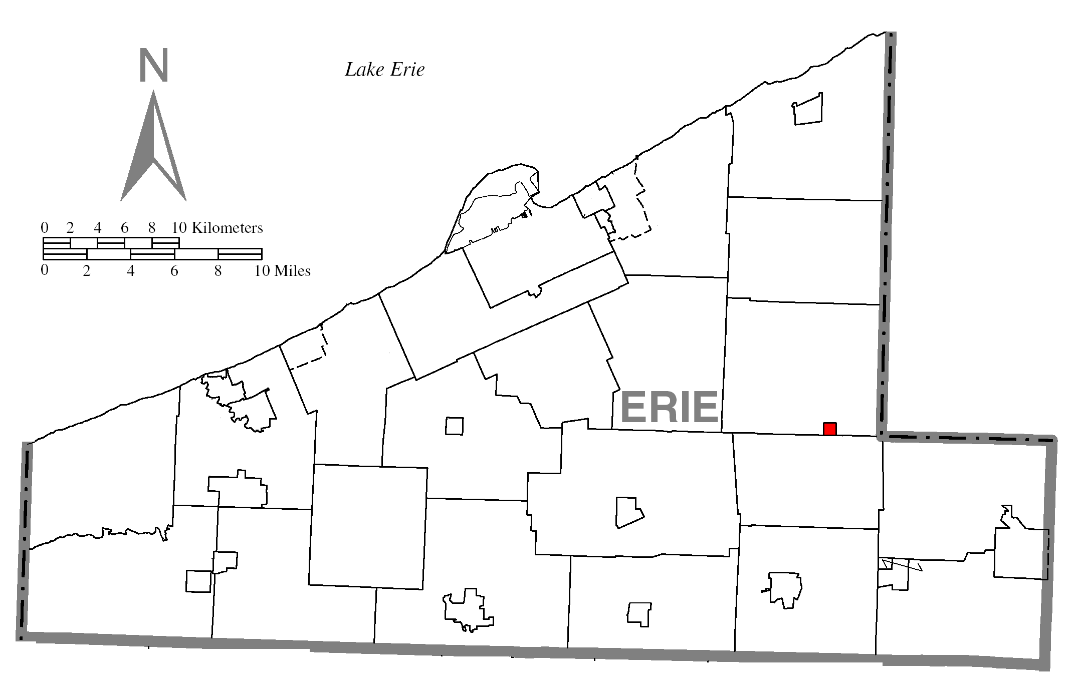 A map of Erie County showing Wattsburg, Pennsylvania (alternate) highlighted on the map.